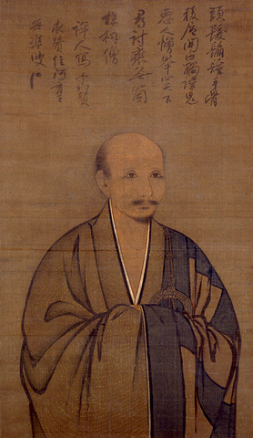 Wuzhun Shifan, Chorakuji, Ota, kept at Gunma Prefectural Museum of History, Takasaki, Gunma, Japan